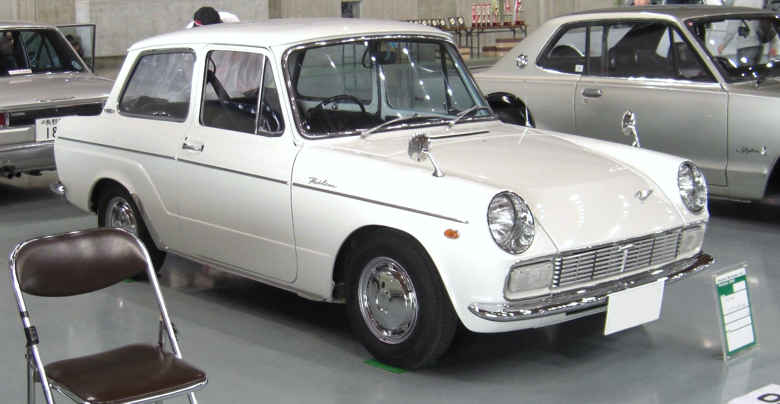 Toyota Publica